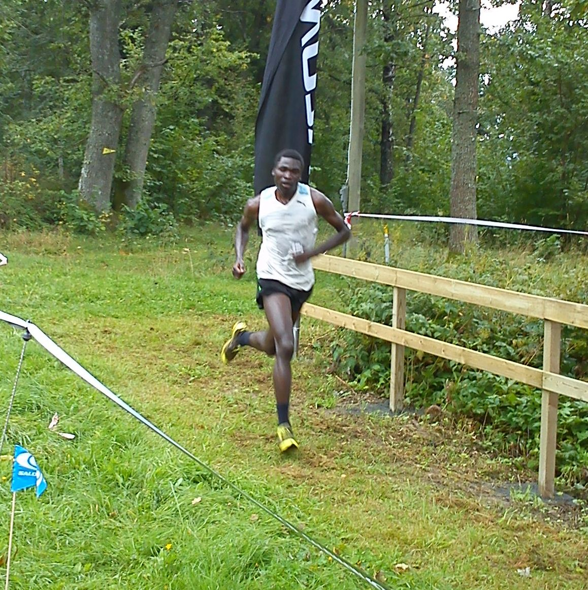 Kenyan runner Laban Siro.